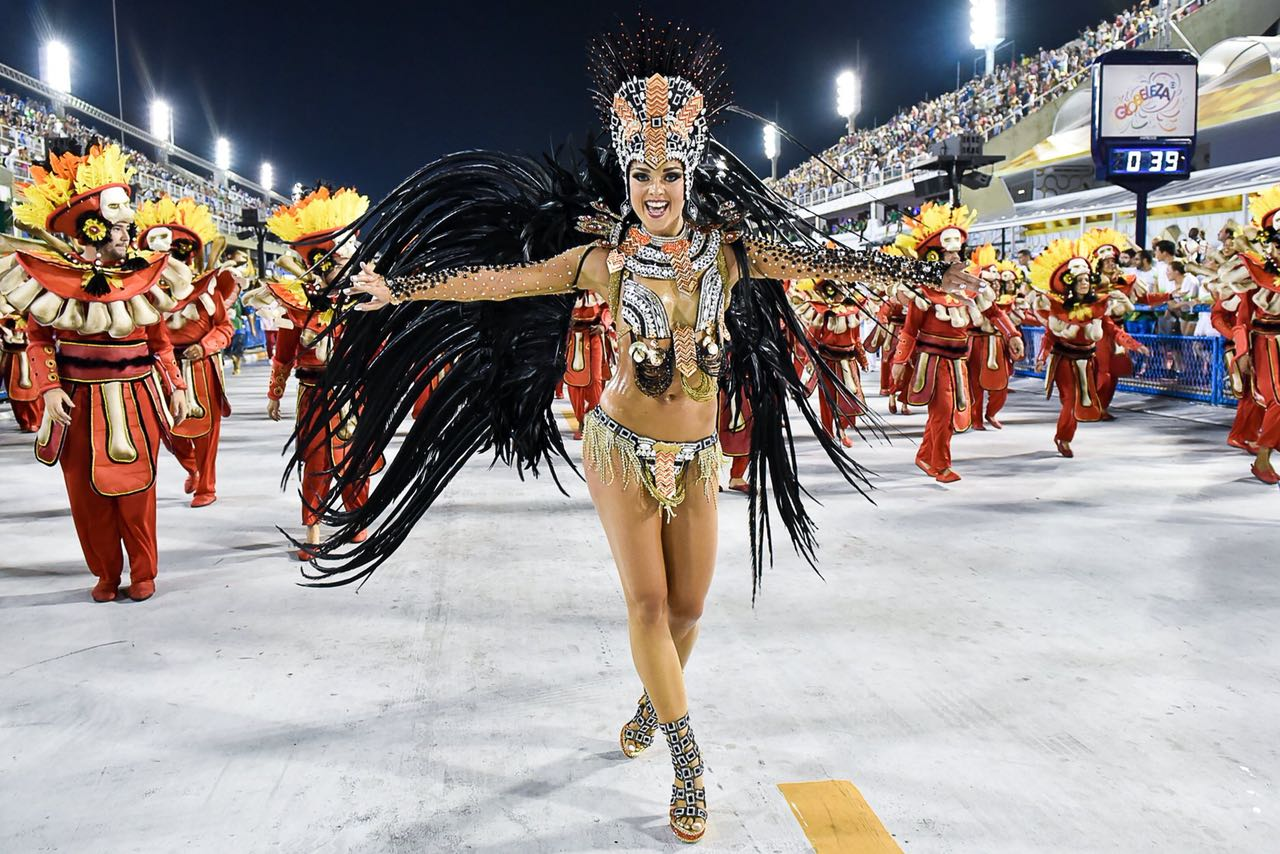 Kashira Stocka in the Sambodrom 2018